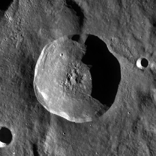 Guthnick crater, on the far side of the moon. Mosaic of LRO WAC images. Aspect ratio adjusted from Mercator Projection.